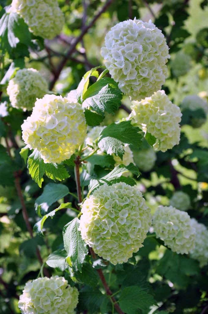 Viburnul opulus Snow ball tree